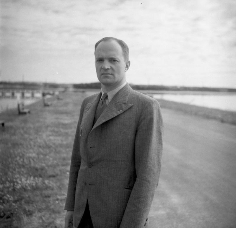 Photograph of the Finnish professor Arvo Ylinen (1902–1975).